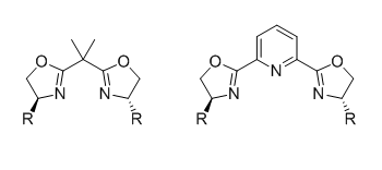 Box and PyBox